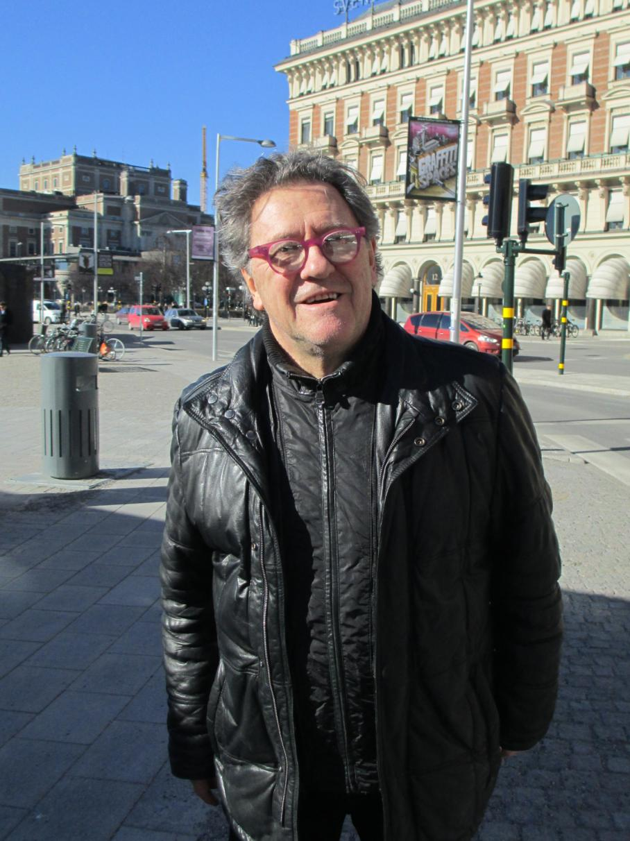 Tommy KörbergPlace: Near the Royal Opera House (behind left), Stockholm, Sweden